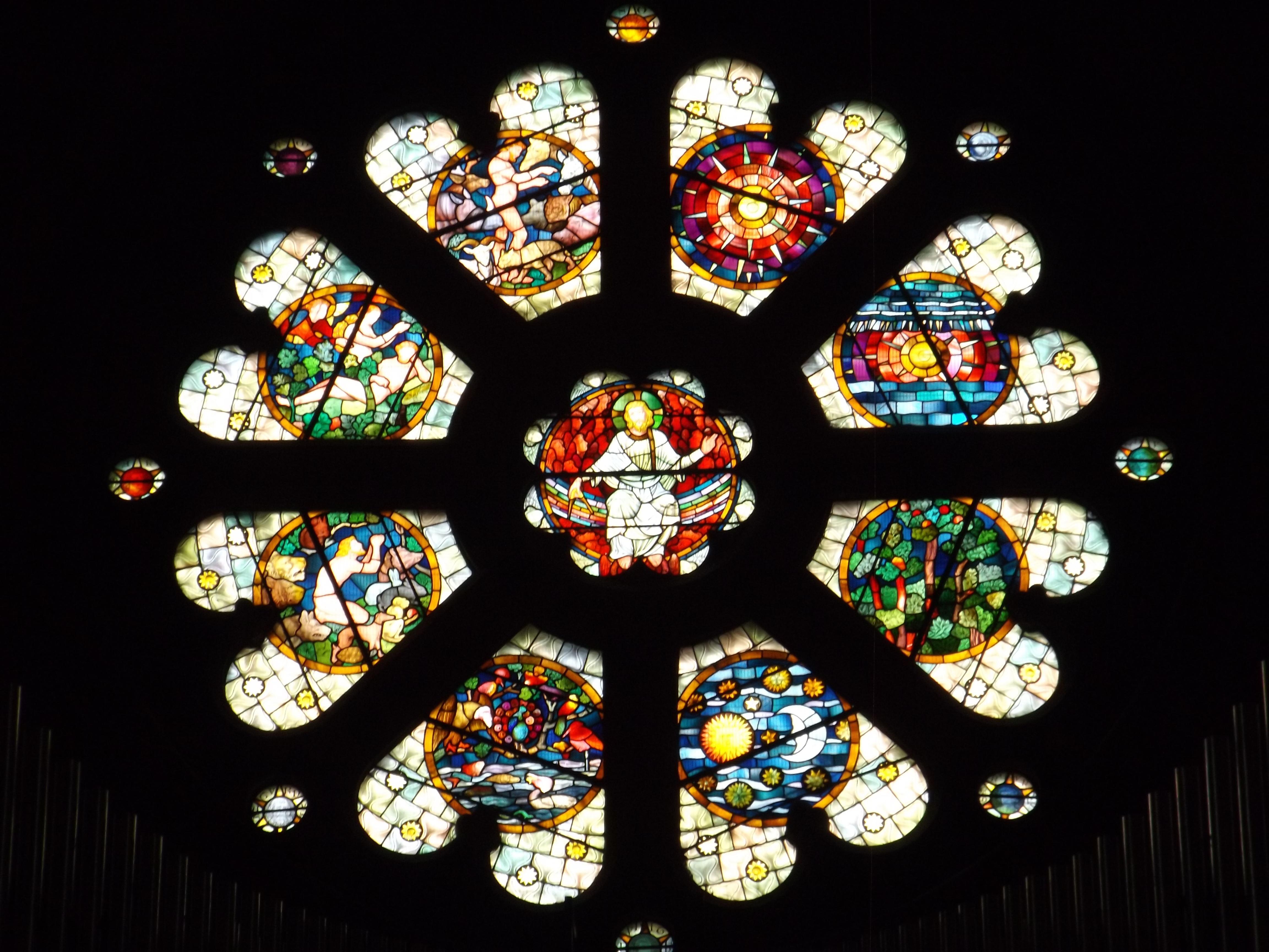 St Finbarres Cathedral